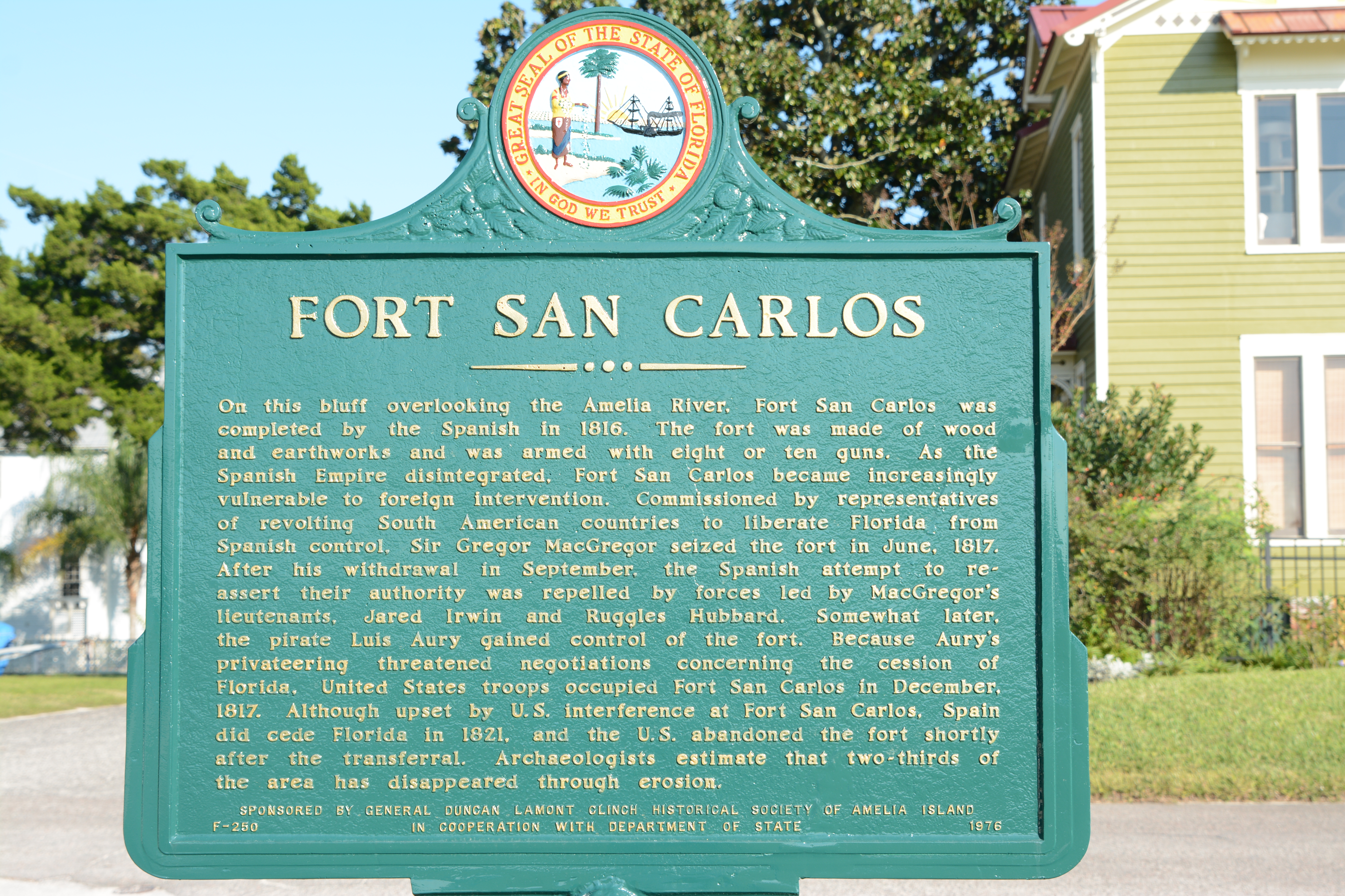 The original site of the town of fernandina, Florida, US